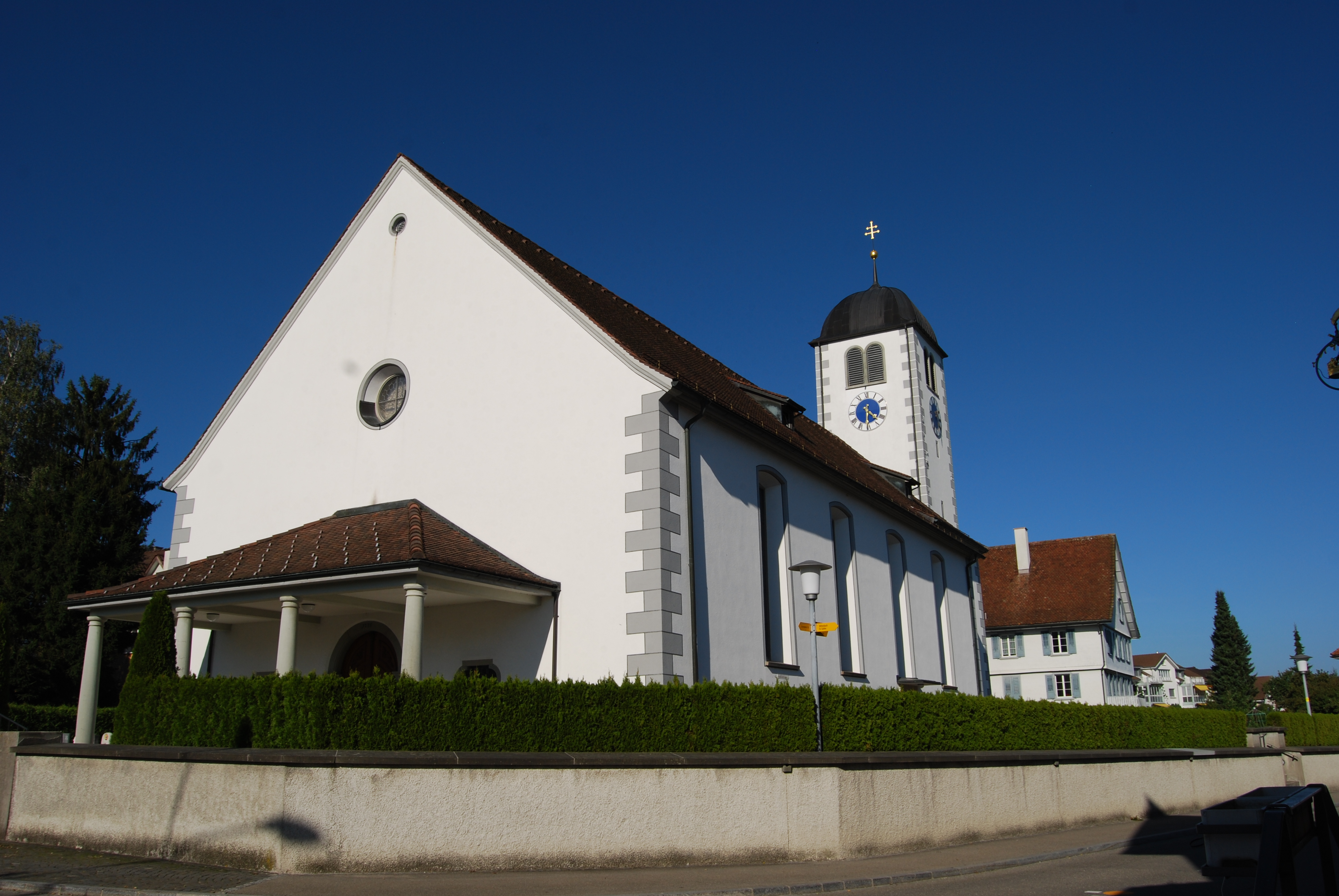 Church of Häggenschwil, canton of St. Gallen, Switzerland